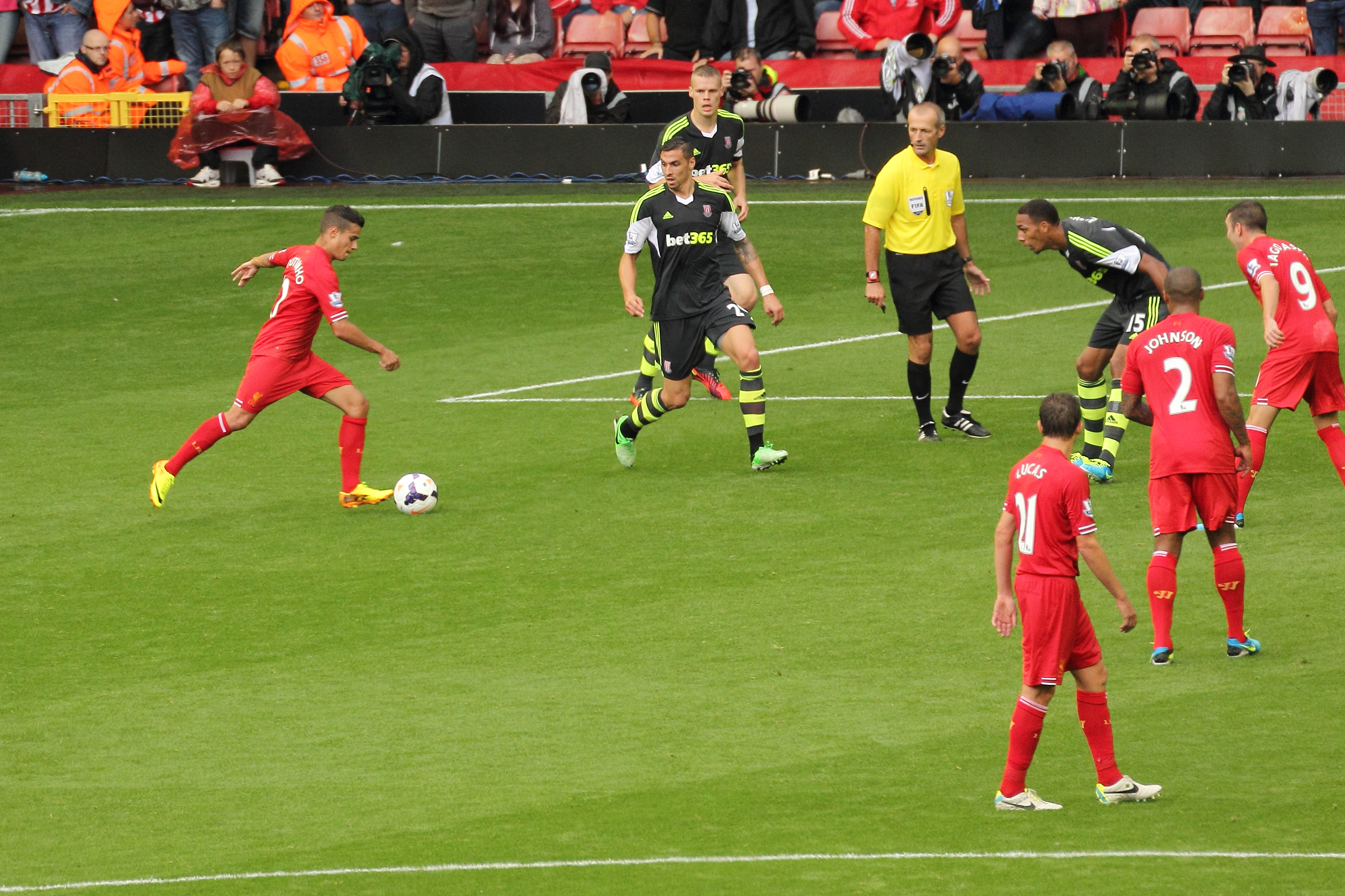 Coutinho has a strike